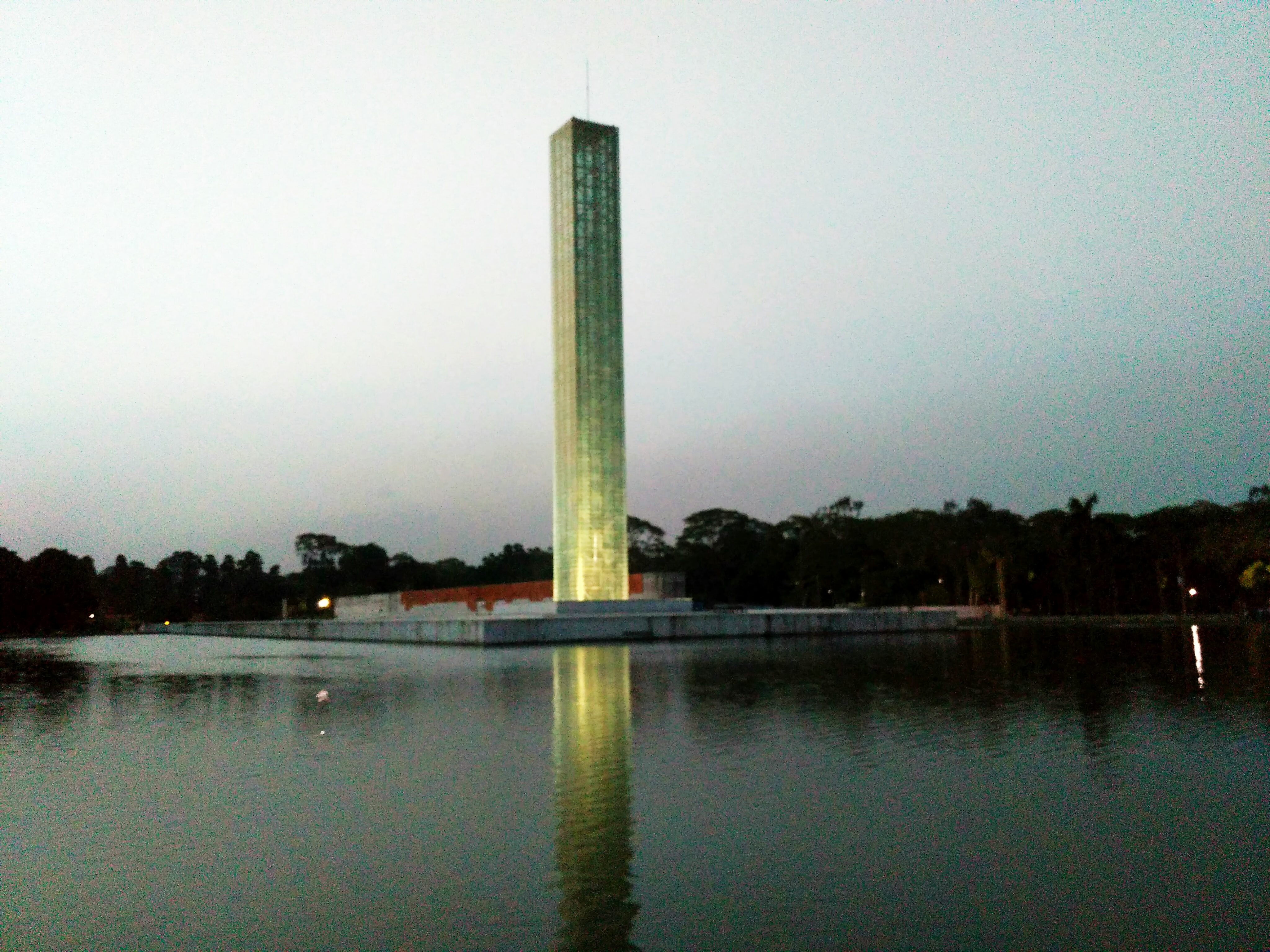 A view of Independence Tower with Lake , Suhrawardi Udyan, Dhaka.